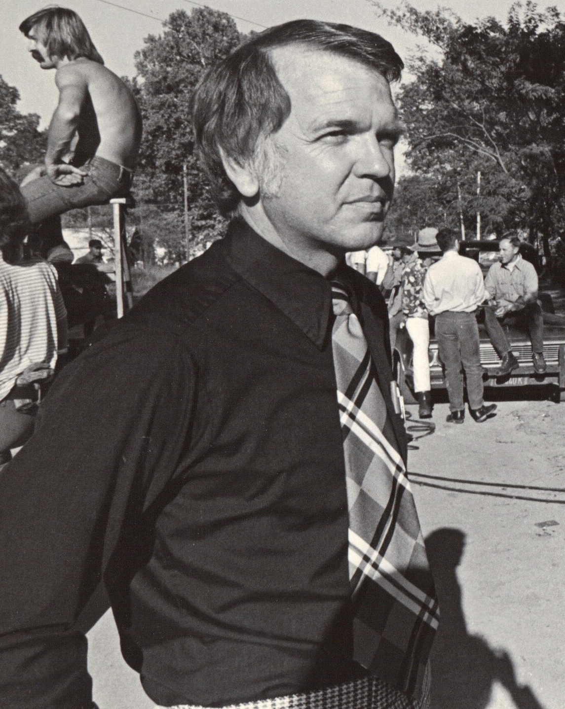 The days of the Gordon Yoder Auricon conversion and the one man band at KTEN. I was shooting a story on the filming of the movie "Dillinger" with Warren Oates, Cloris Leachman and Ben Johnson and was interviewing then Lt. Governor George Nigh. this must